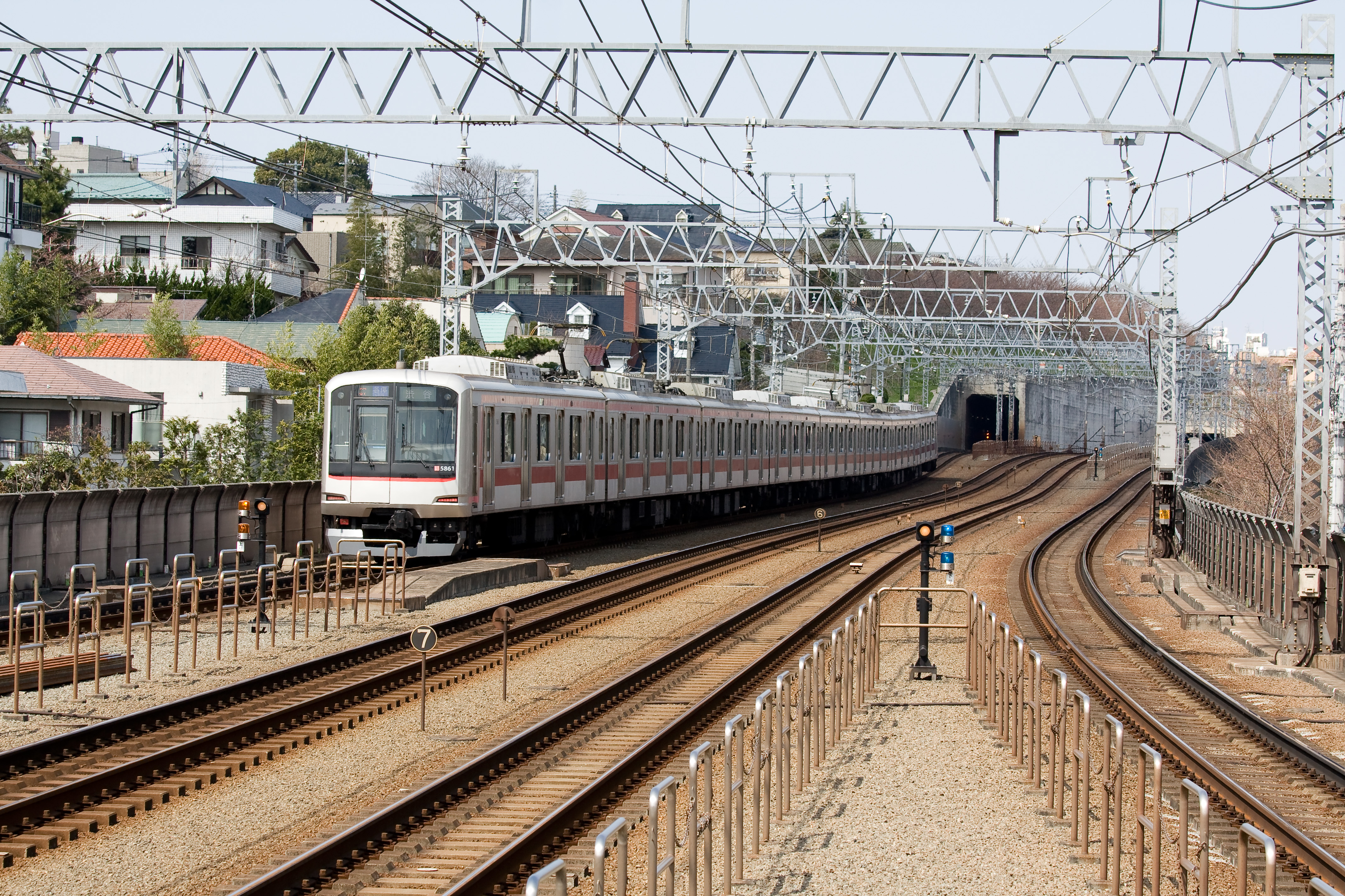 Tokyu Toyoko Line in vicinity of Tamagawa Station